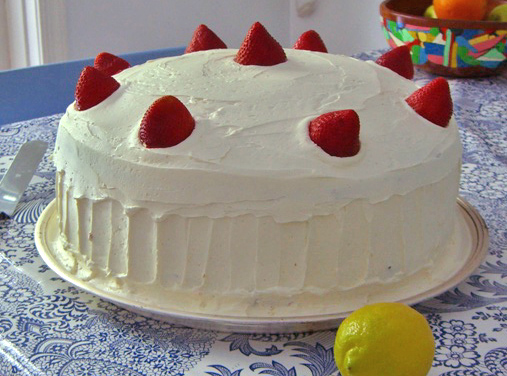 Strawberry Cake created and photographed by "Georgelazenby"